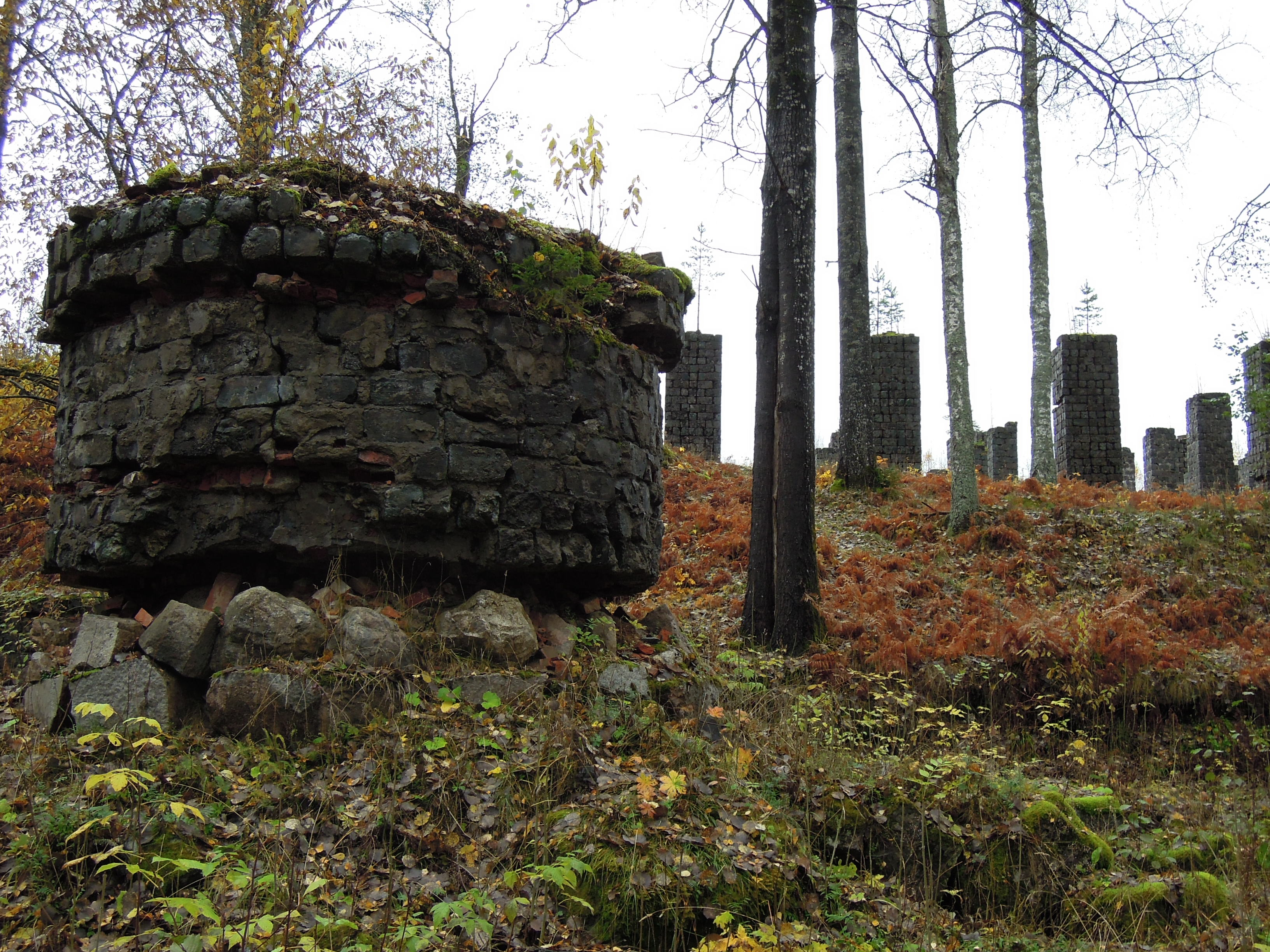 Remnants in year 2012 from the ironworks ”Trummelsbergs bruk” in Fagersta Municipality in Västmanland, Sweden. The ironworks was in operation 1866 – 1907. The stone cylinder was the lower part of the ore-roasting kiln and the stone pillars were supporting the roof of the gigantic charcoal store.